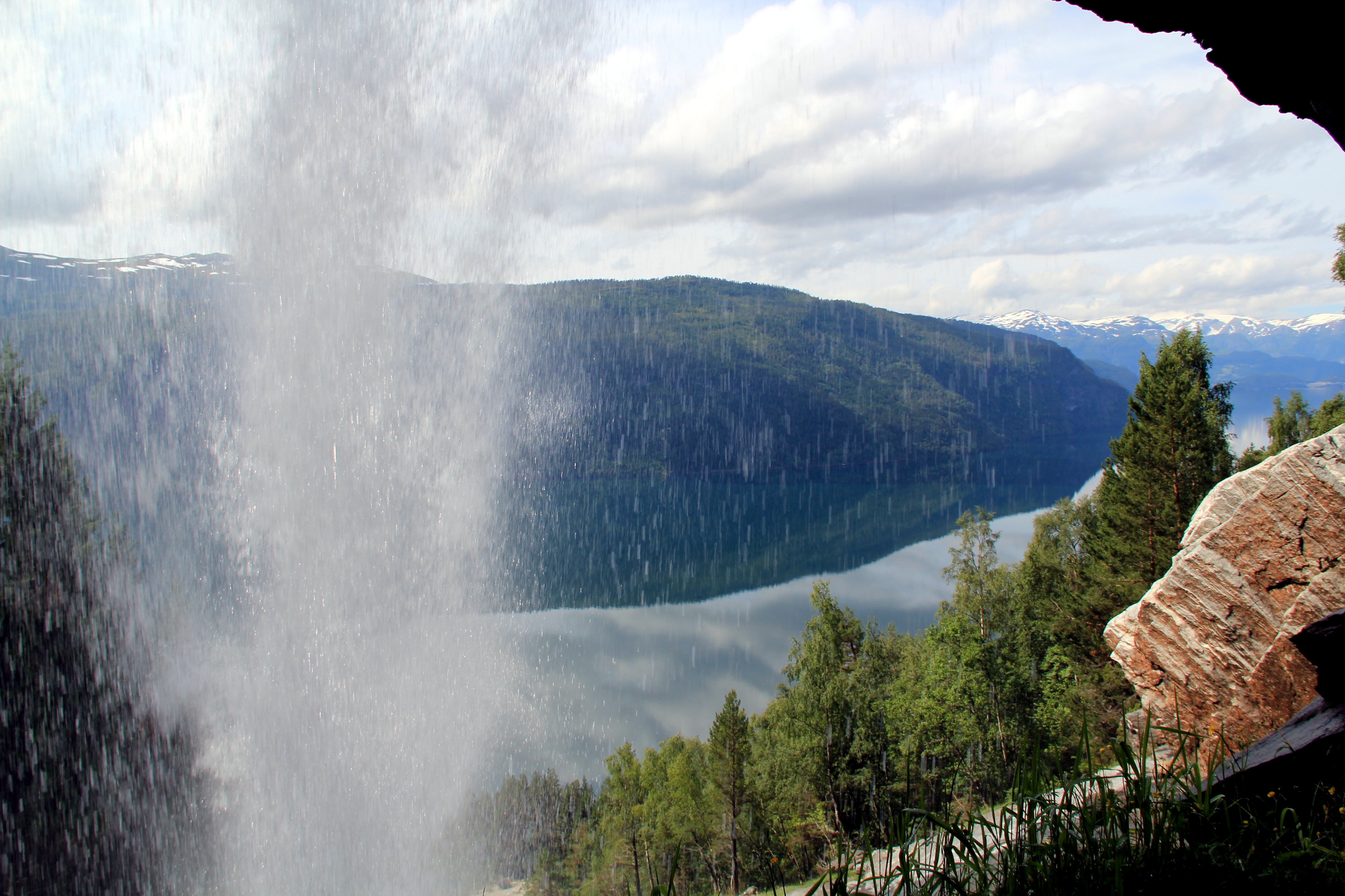 Tvinnefossen, waterfall in Stryn, Norway with passway underneath